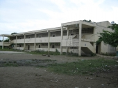 Integua